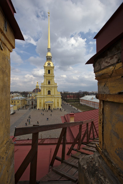 Peter and Paul Cathedral. Saint Petersburg, Russia. Photo by Anton Vaganov.